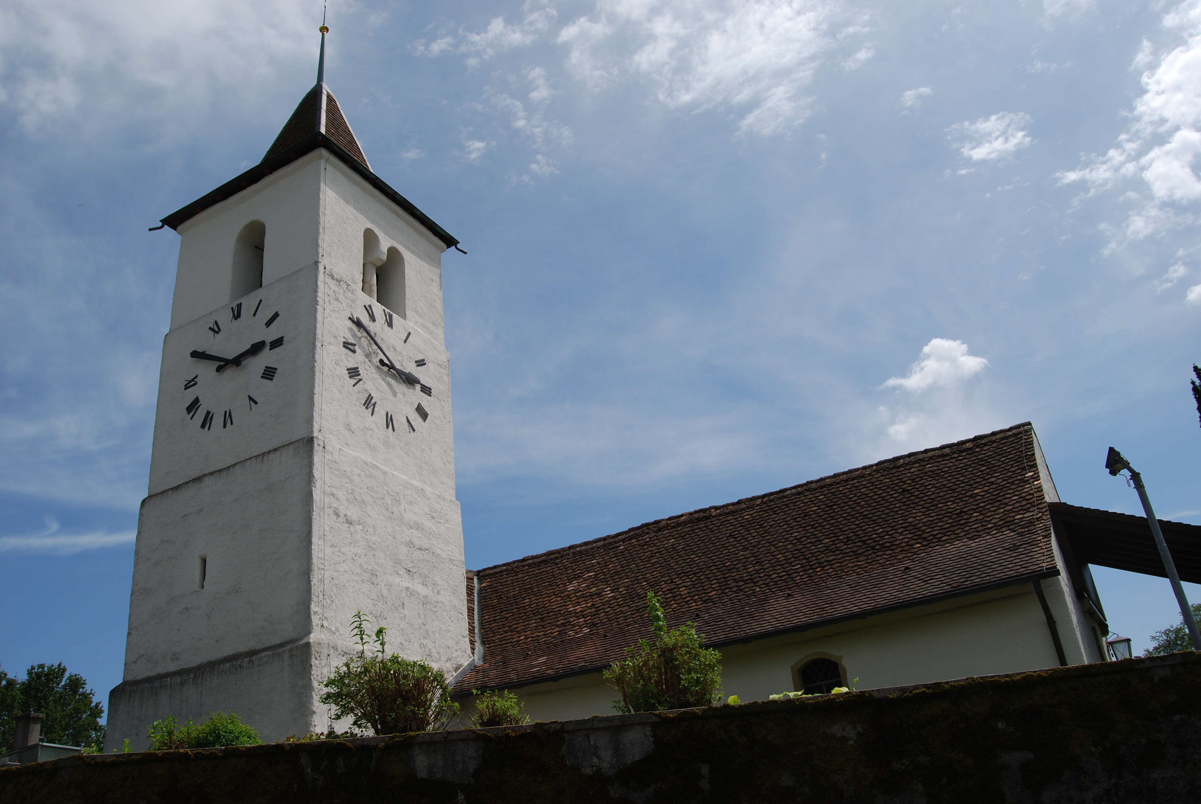 Church of Radelfingen, canton of Bern, Switzerland